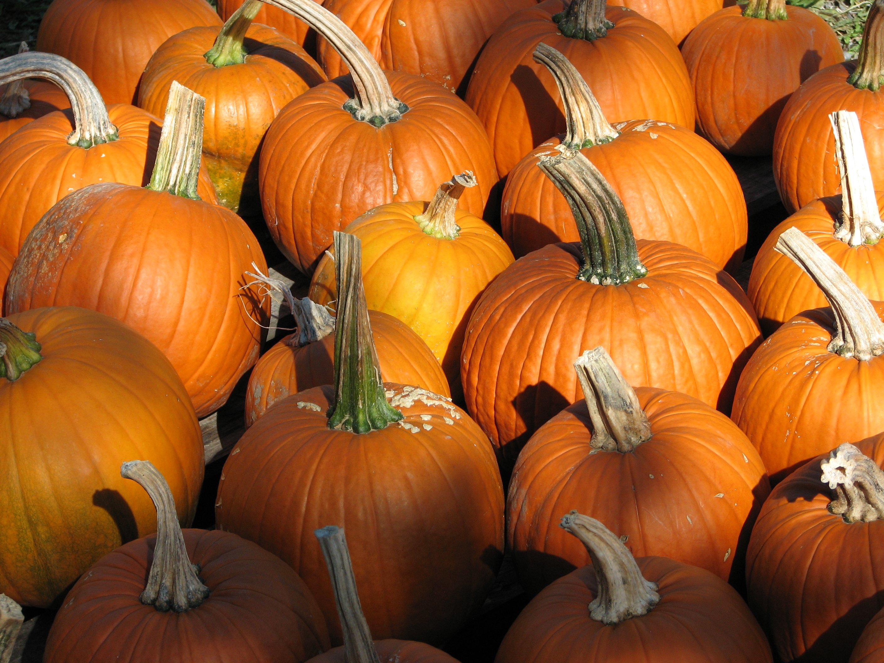 Pumpkins at a pumpkin patch in Geneseo, New York.